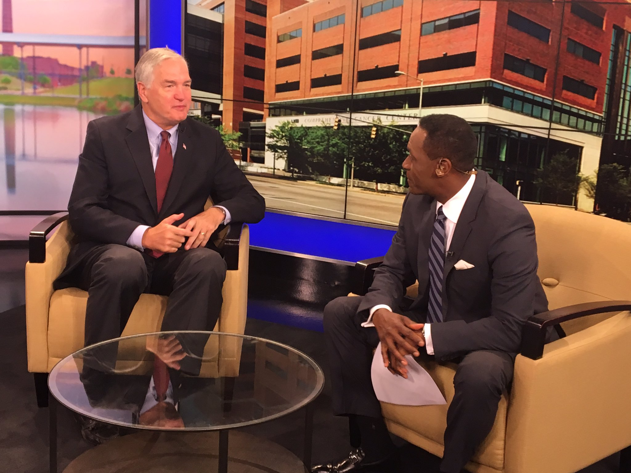 "Going live on @WIAT42 with @TheArtFranklin Tune in!"